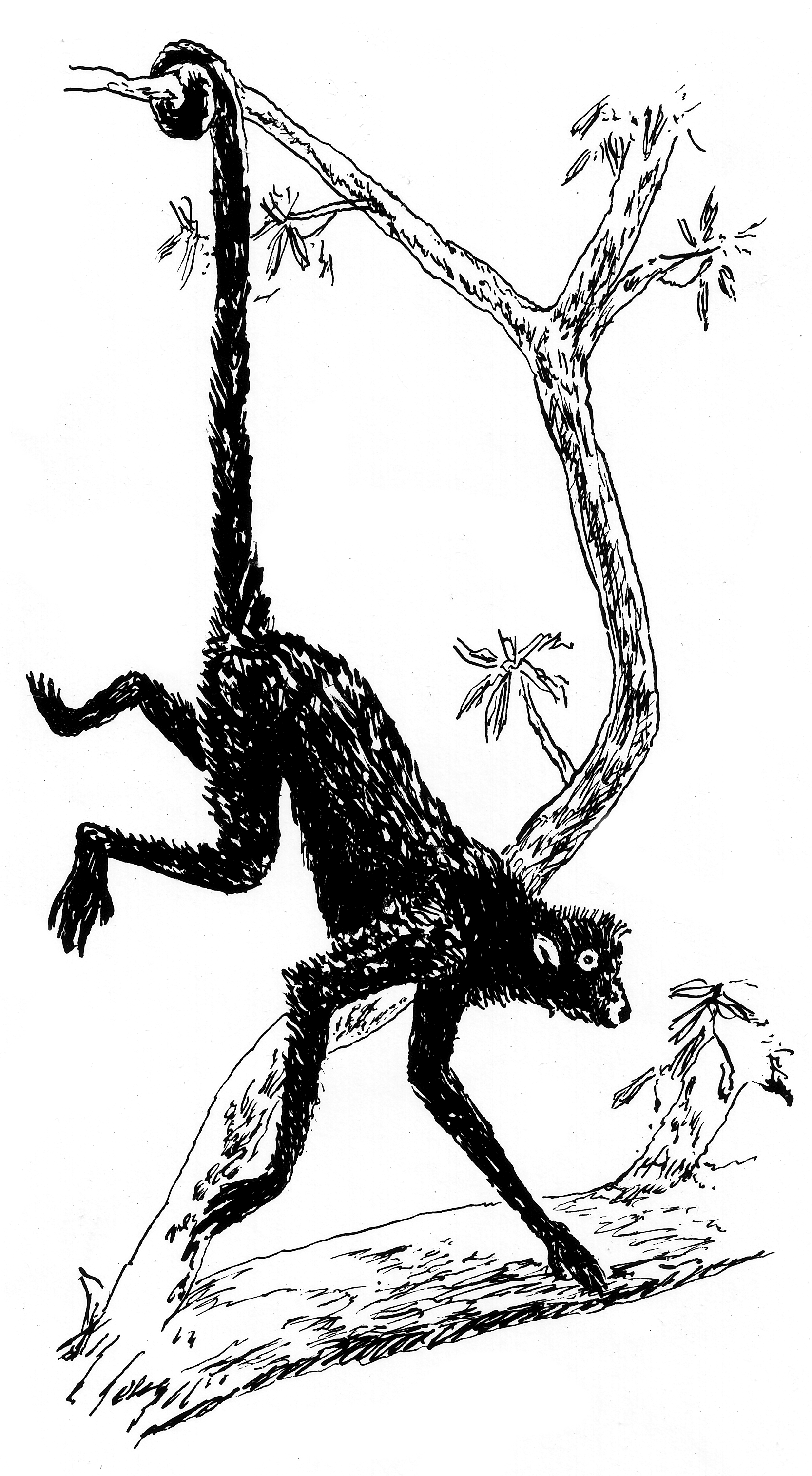 Line art drawing of "prehensile" (prehensility).